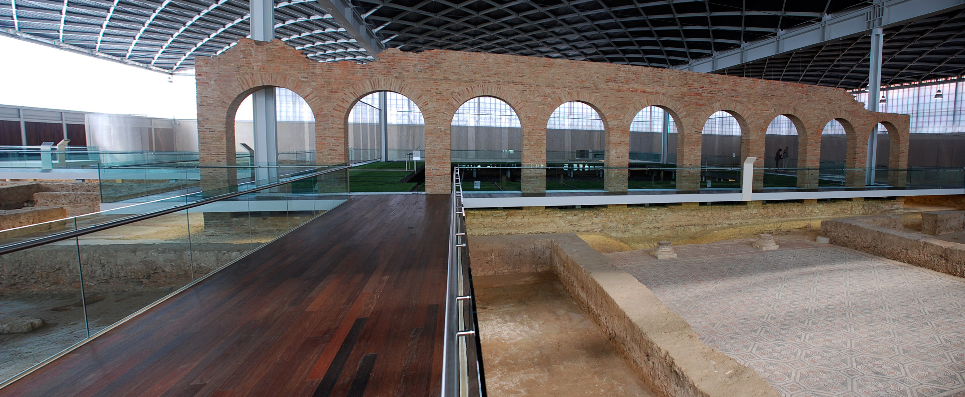 Roman Villa of La Olmeda in Pedrosa de la Vega (Palencia, Castile and León).